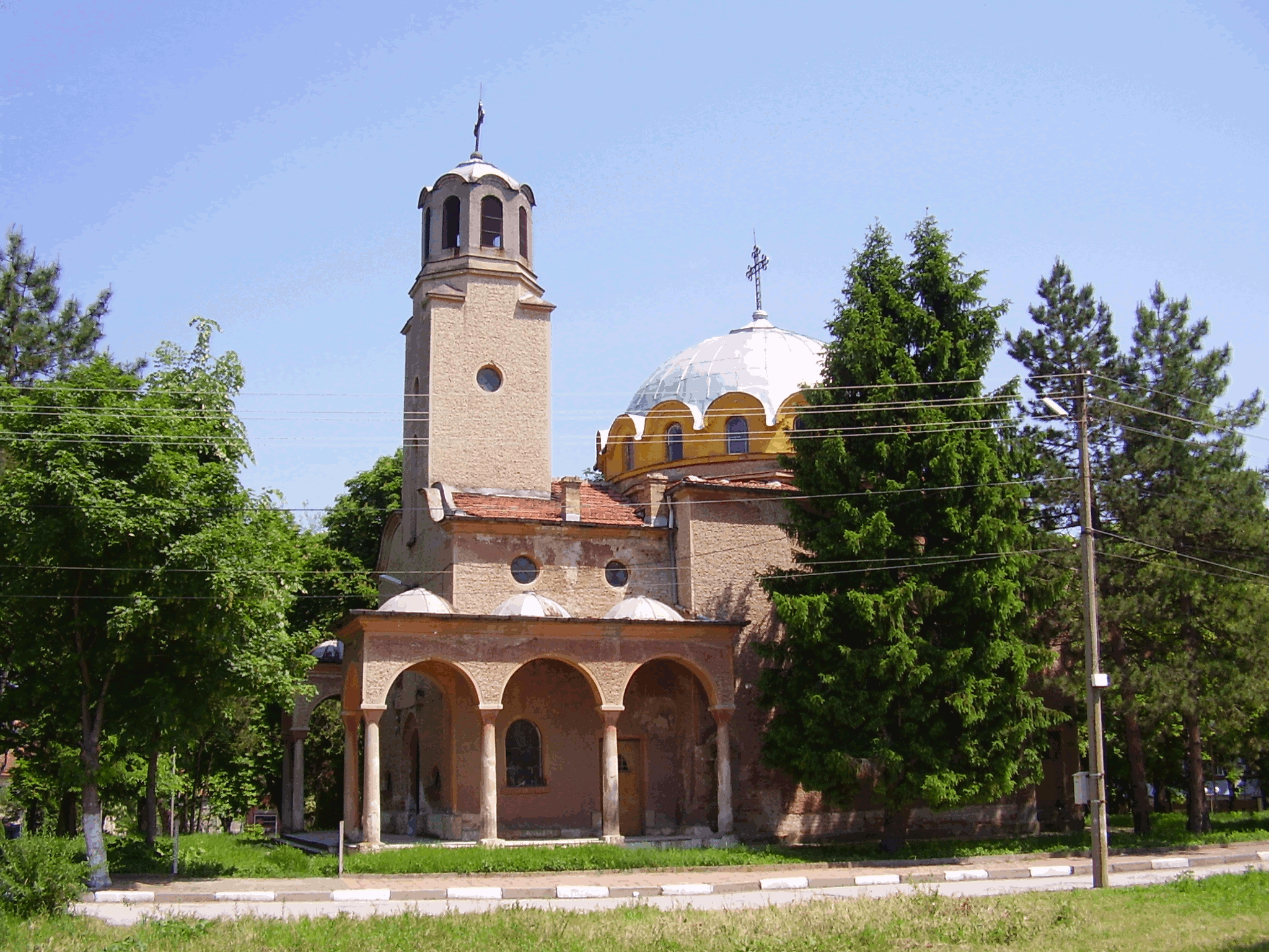 Church of St Demetrius, Dolna Mitropoliya, Pleven, Bulgaria